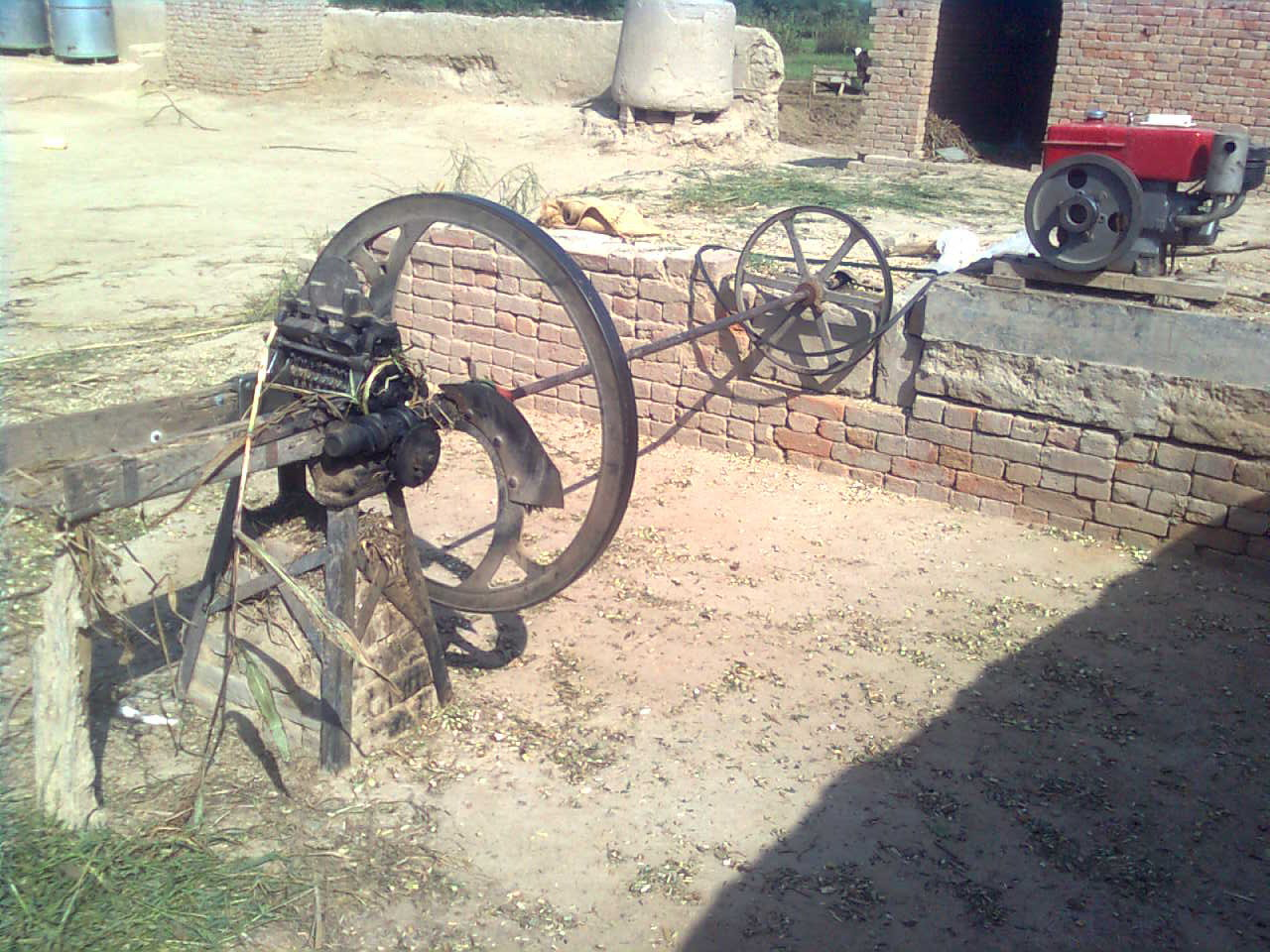 Chaf cutter, machine for making fooder for cattle, Punjab (Pakistan)